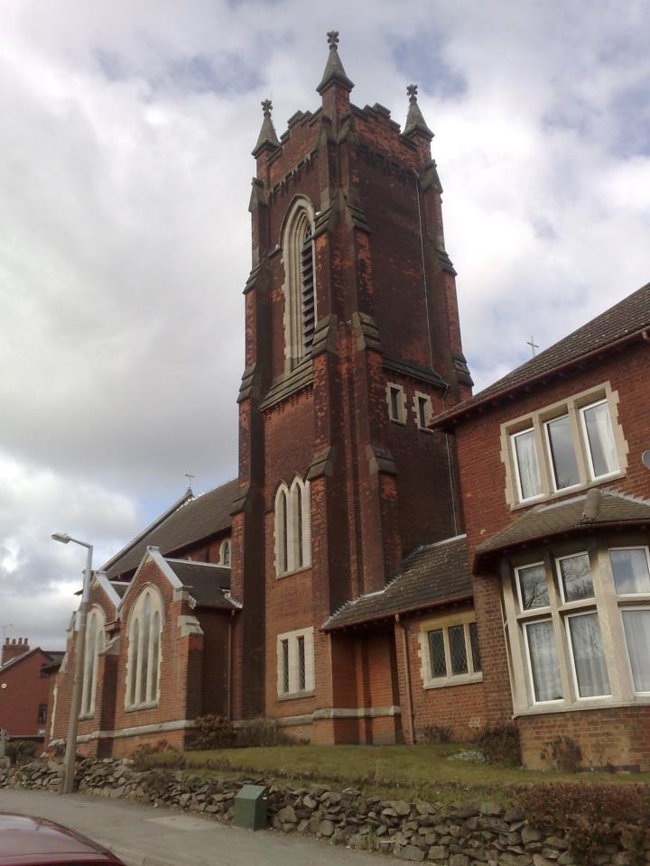 The Roman Catholic Church of the Holy Cross, Whitwick, built on Parsonwood Hill in 1904.